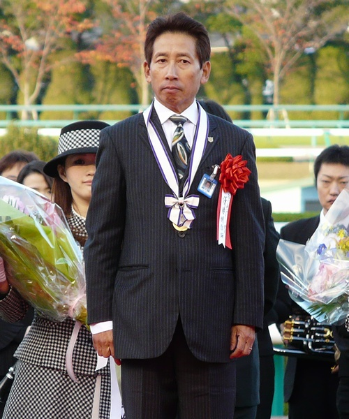 Takayuki-Yasuda20111204